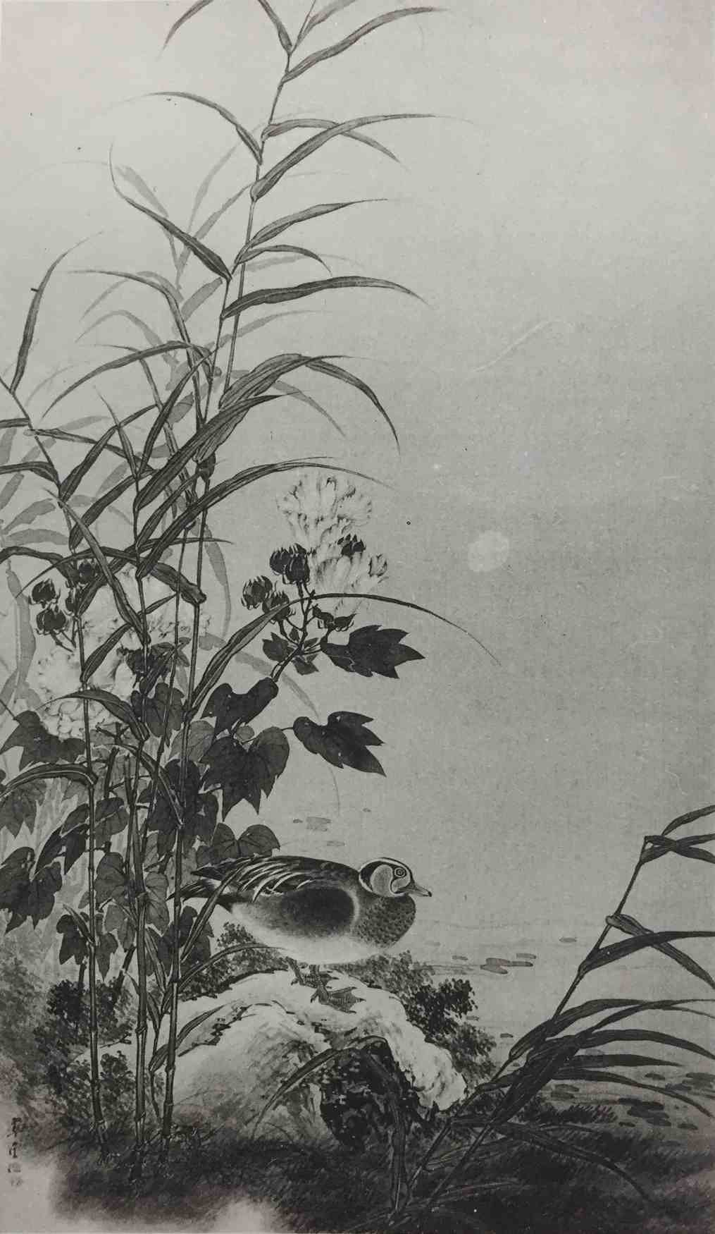 Noguchi Suiun (Komuro Suiun), Lonely Duck among Reeds in Lake (Shuntei no kokamo 春景の孤鴨), 1904. Exhibited at World's Fair, Saint Louis, 1904. Hanging scroll; ink and colours on silk. Saint Louis Art Museum. Image from Yamashita, Kwanjiuro 1904. The Illustrated Catalogue of Japanese Fine Art Exhibits in the Art Palace at the Louisiana Purchase Exposition. Kobe: Pub. Dept. of the Kwansai Shashin Seihan Inatsu Goshi Kaisha, unpaginated.